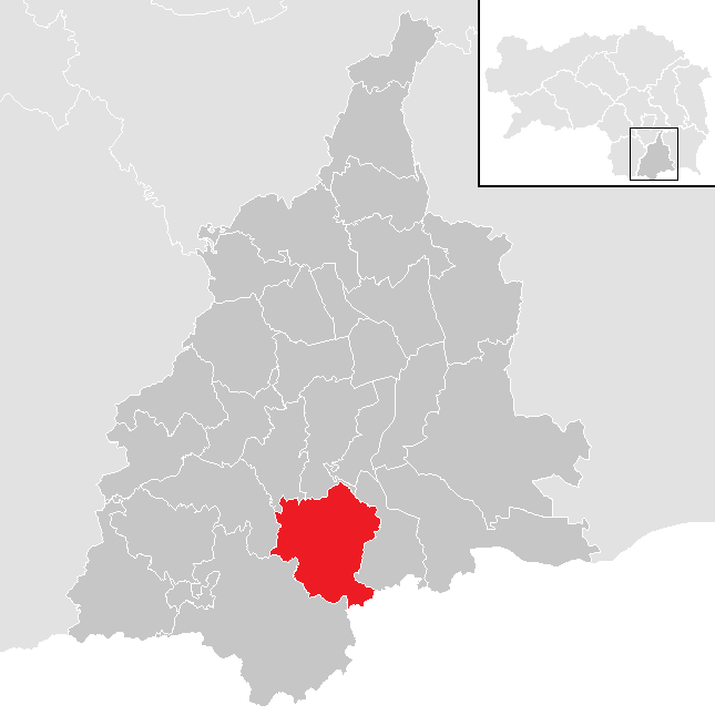 District Leibnitz